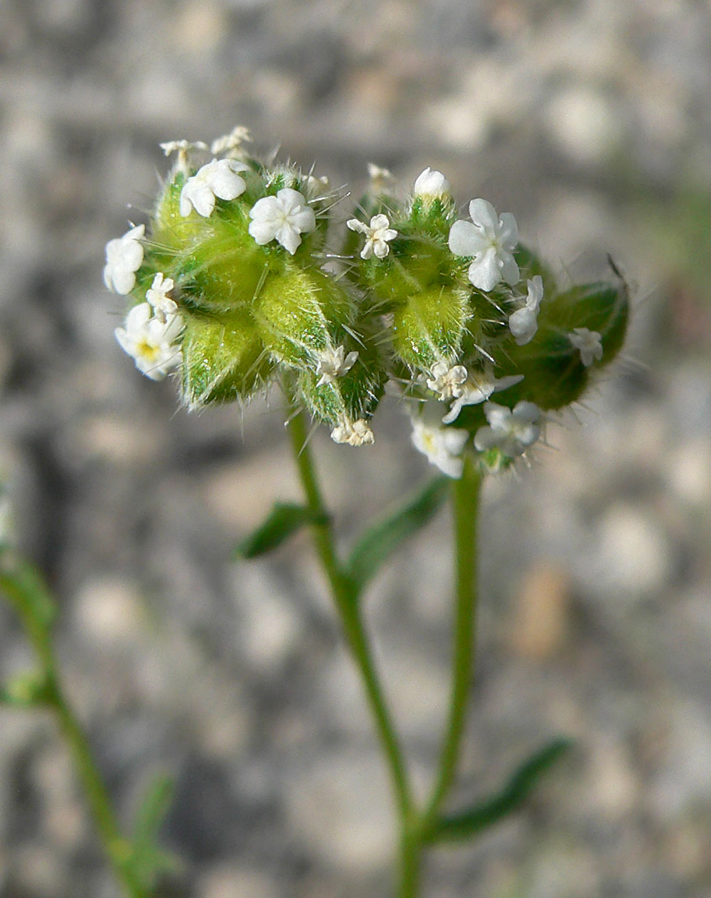 Cryptantha pterocarya near the road in lower Kyle Canyon, Spring Mountains, southern Nevada (elev. about 1600 m)